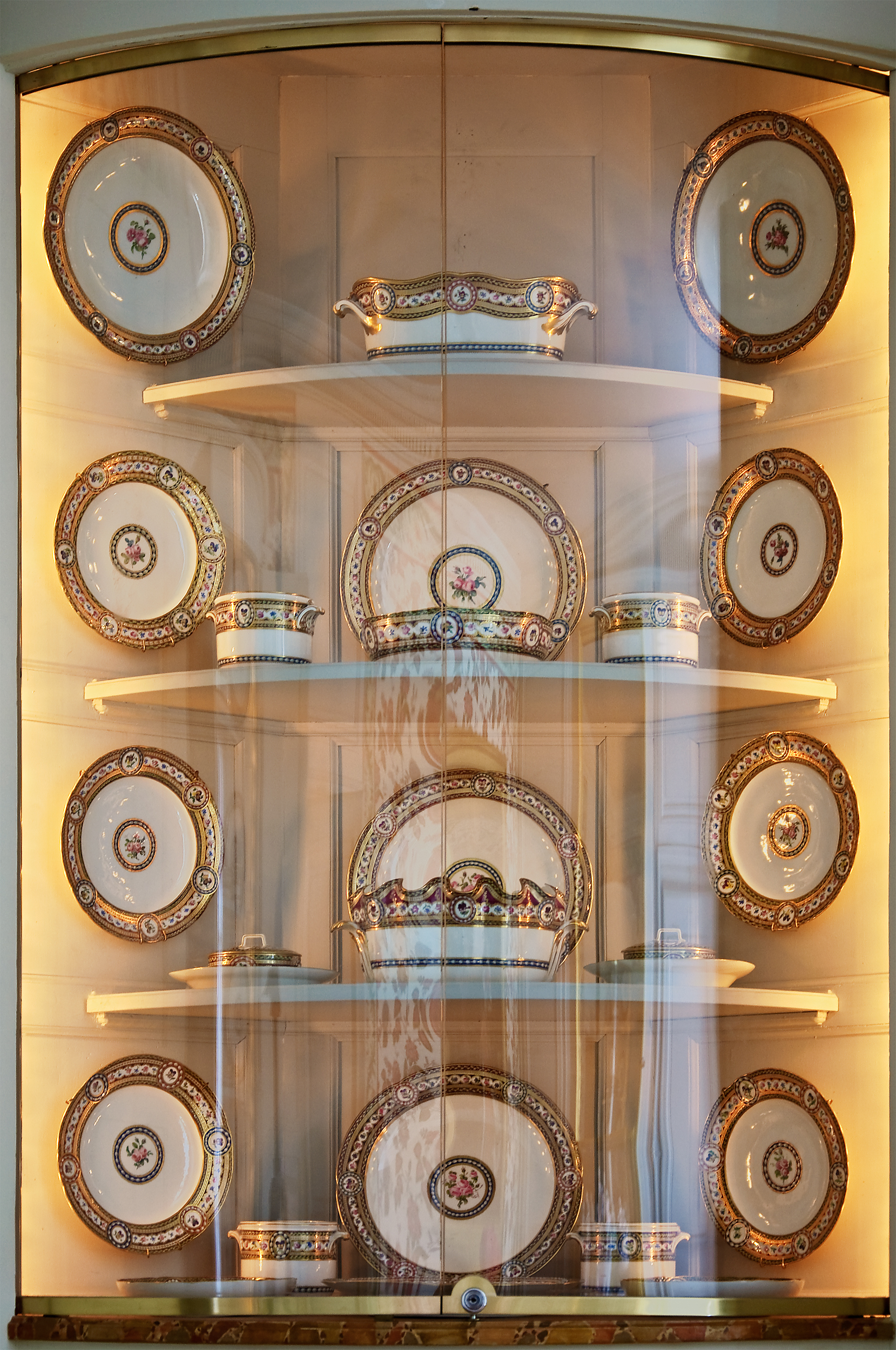 Sèvres porcelain dinnerware from the service with decoration « riche en couleurs et riche en or » ordered in 1784 for the queen Marie-Antoinette. Palace of Versailles - Petit appartement de la Reine - Dining room.